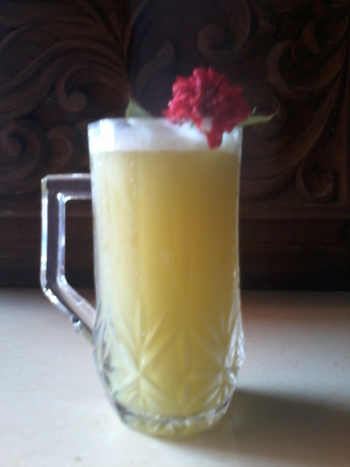 It is a juice which made up of crushing the sugarcane..It is so healthy and whenever we drink it, it makes us feel fresh,,,It is so useful during Summer Season.......